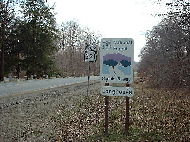 Southbound Pennsylvania Route 321 past the intersection with Pennsylvania Route 59 in Corydon Township, with a sign for the Longhouse National Scenic Byway.